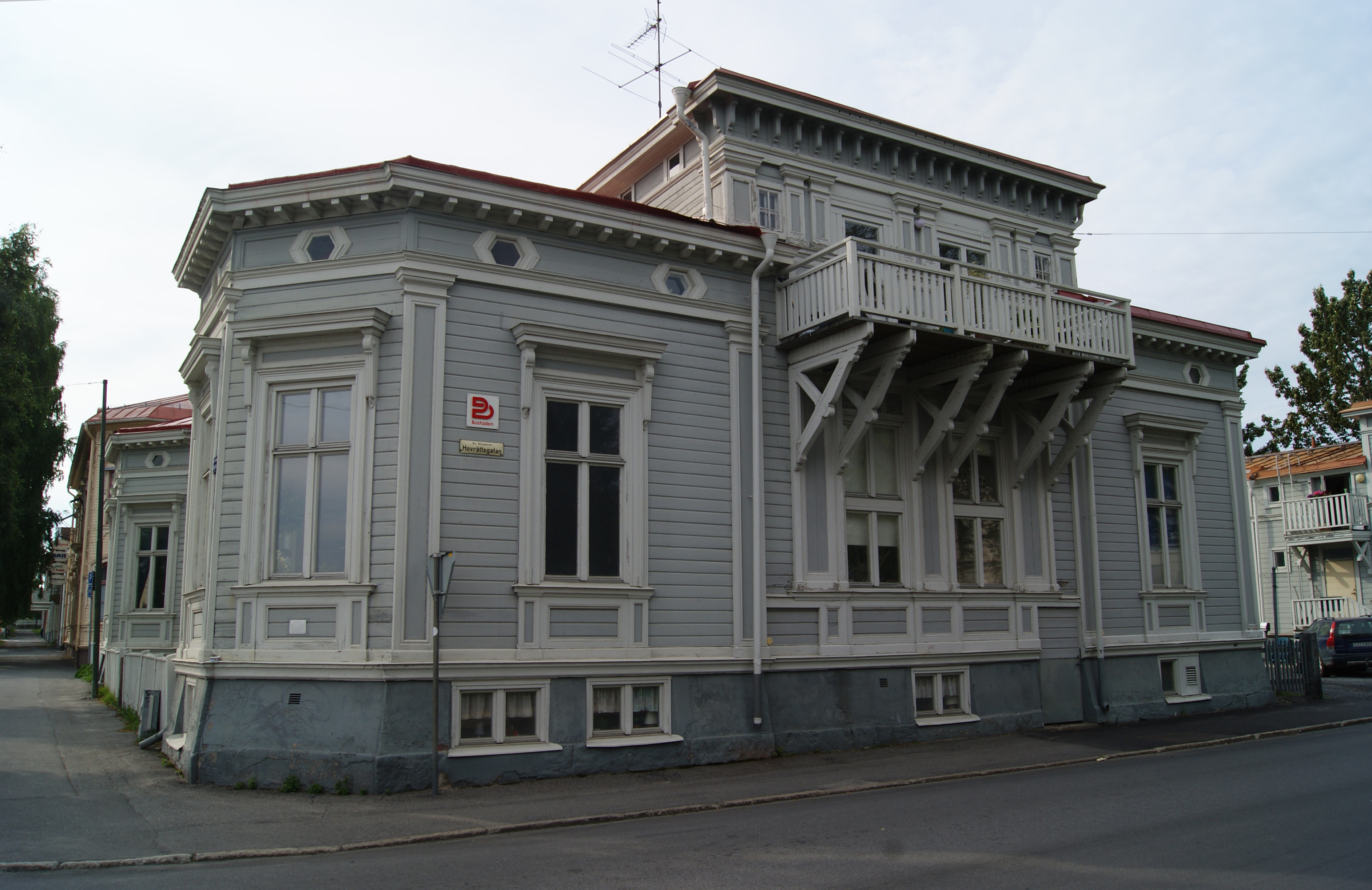 This house was erected by lieutenant Leopold Grahn in 1882. Towards the street Storgatan the house have corner pavilions in French pleasure palace stile.